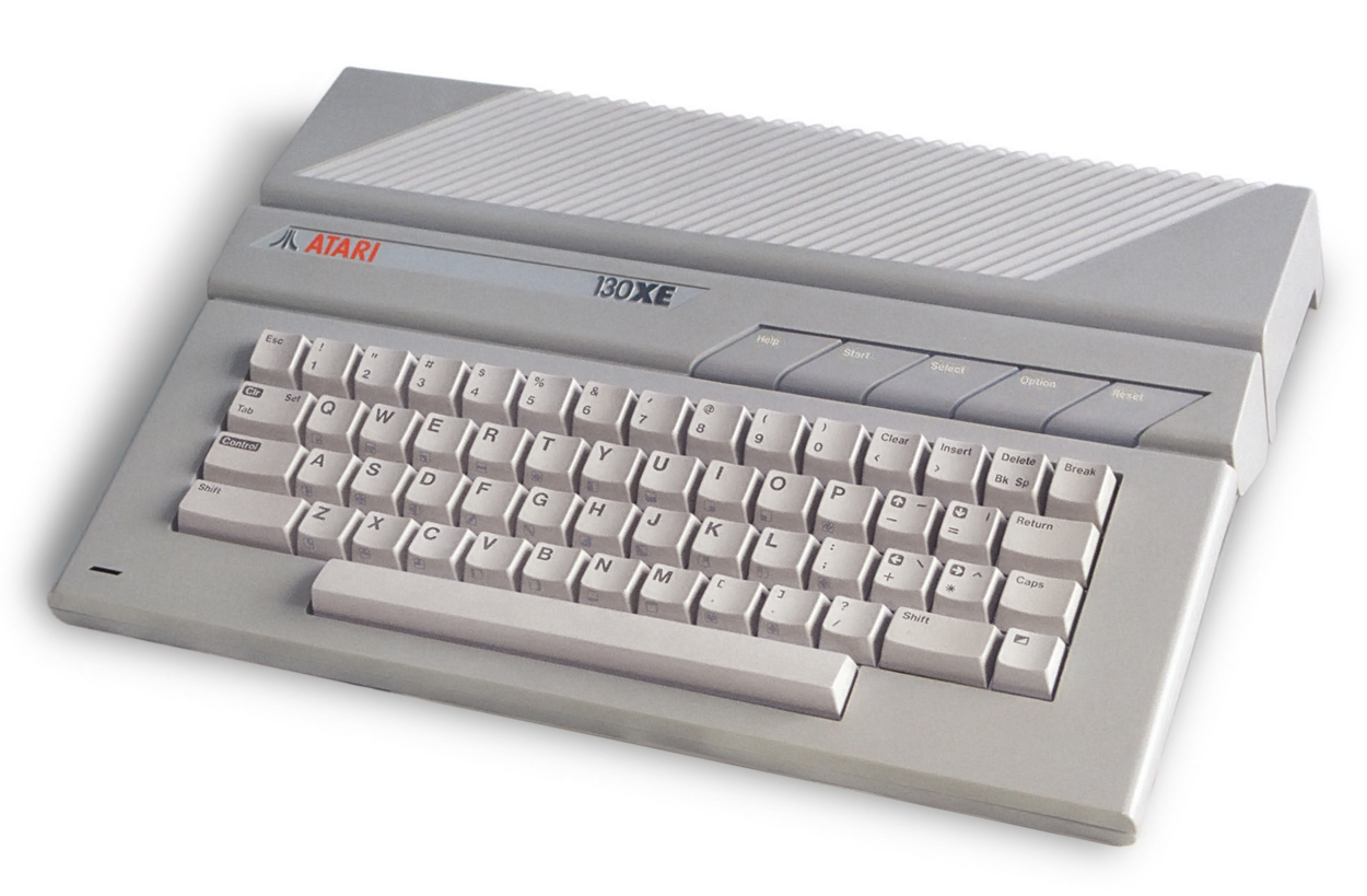 Photograph of an Atari 130XE home computer.